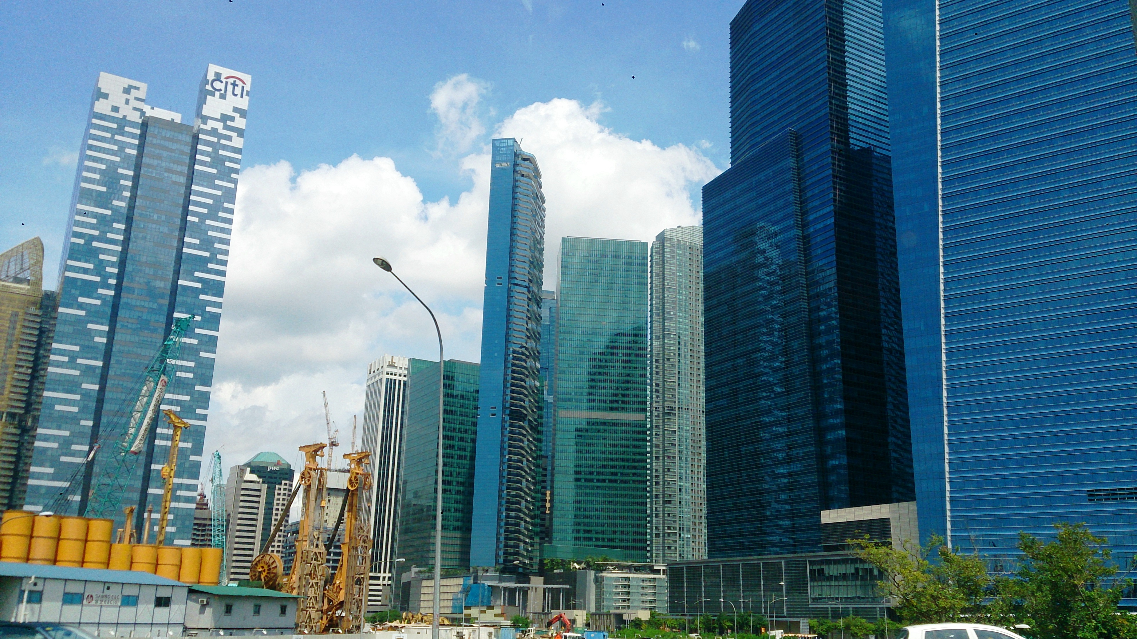 Skyline of the Central Business District of Singapore, featuring Asia Square on the left. The anchor tenant of Tower 1 of the building is Citibank.